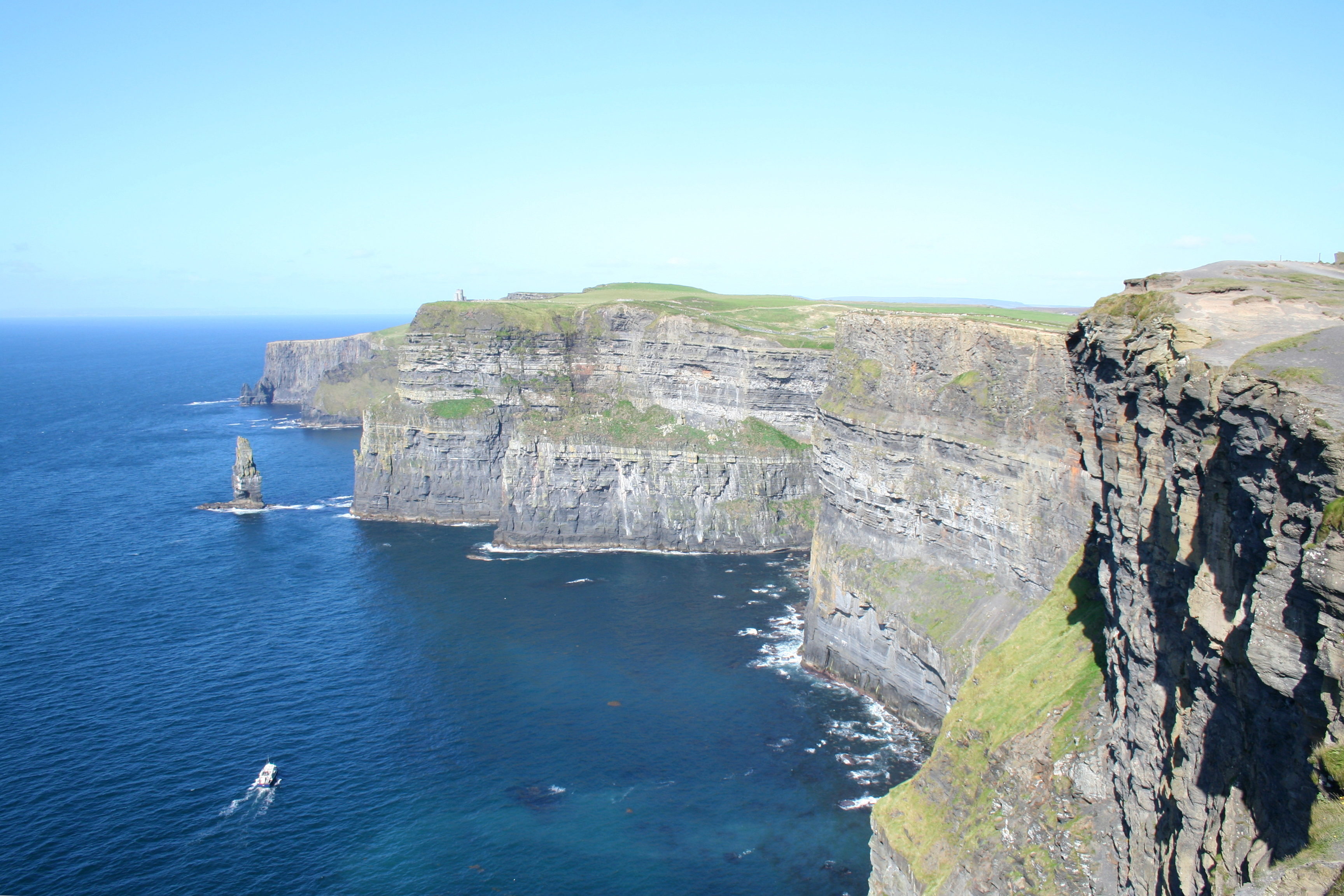 Cliffs of Moher, County Clare, Ireland